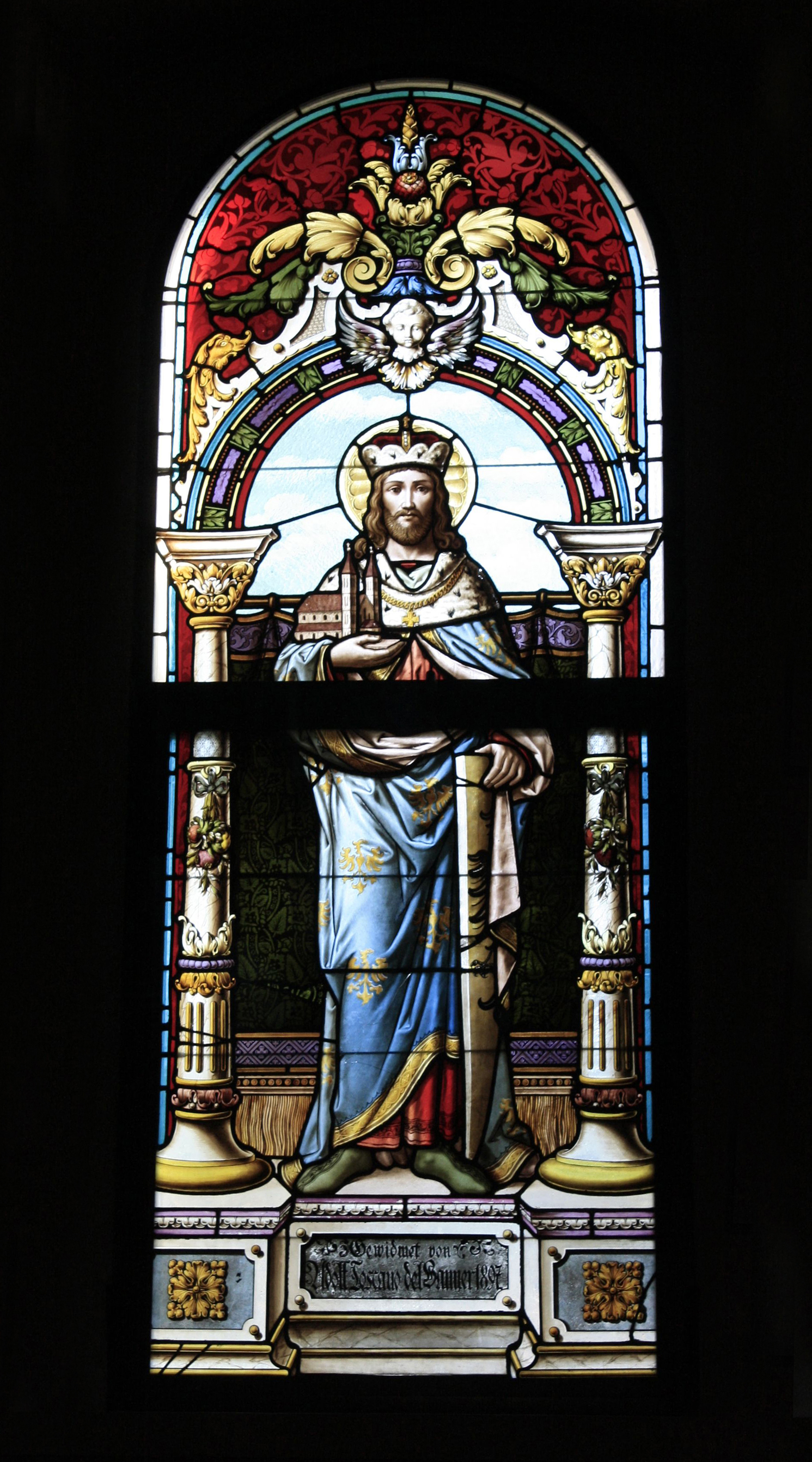 This is a stained glass depiction of Saint Leopold III Margrave of Austria in the Church at Gaaden (cropped)